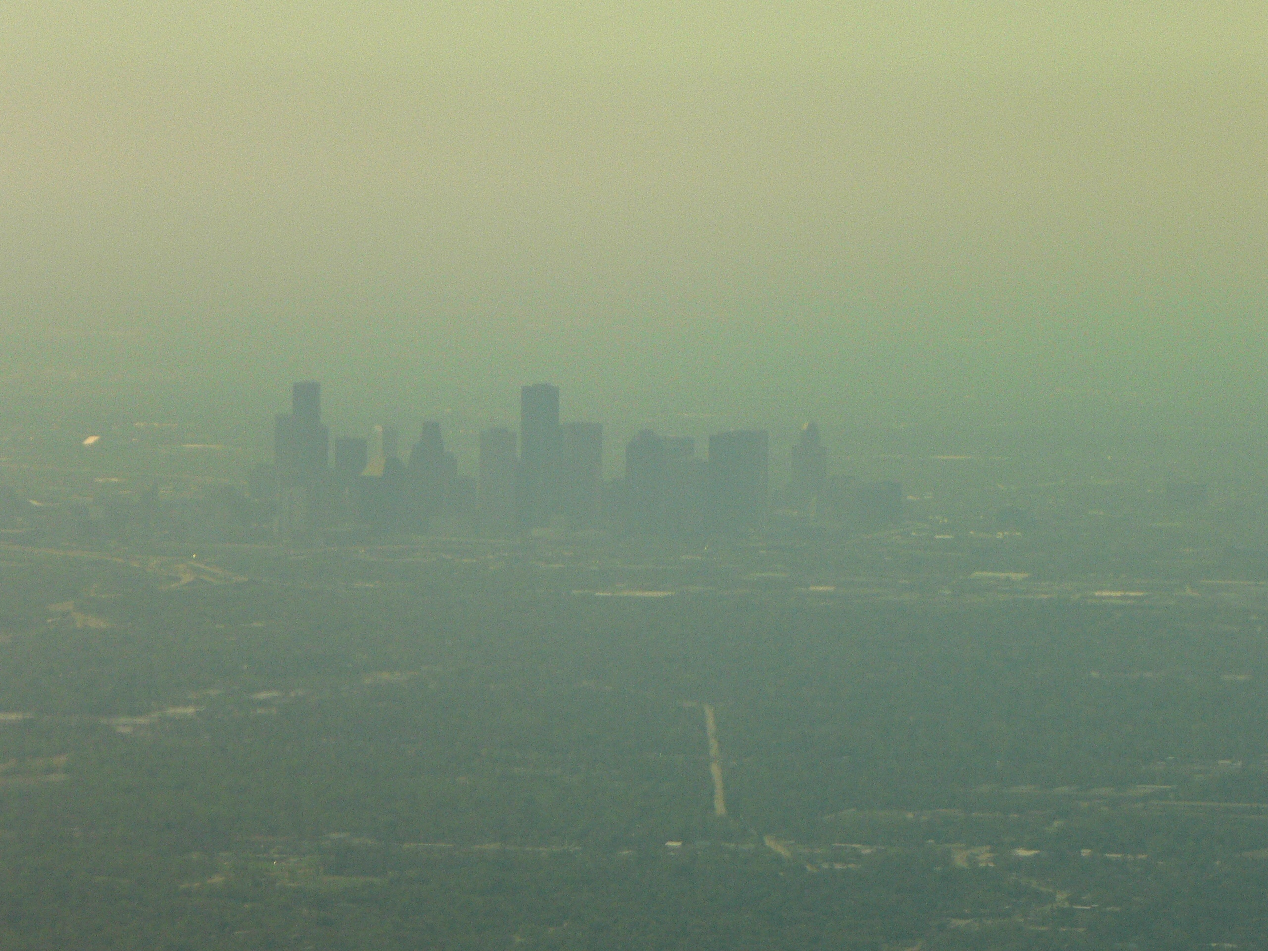 Smog over Downtown Hoouston